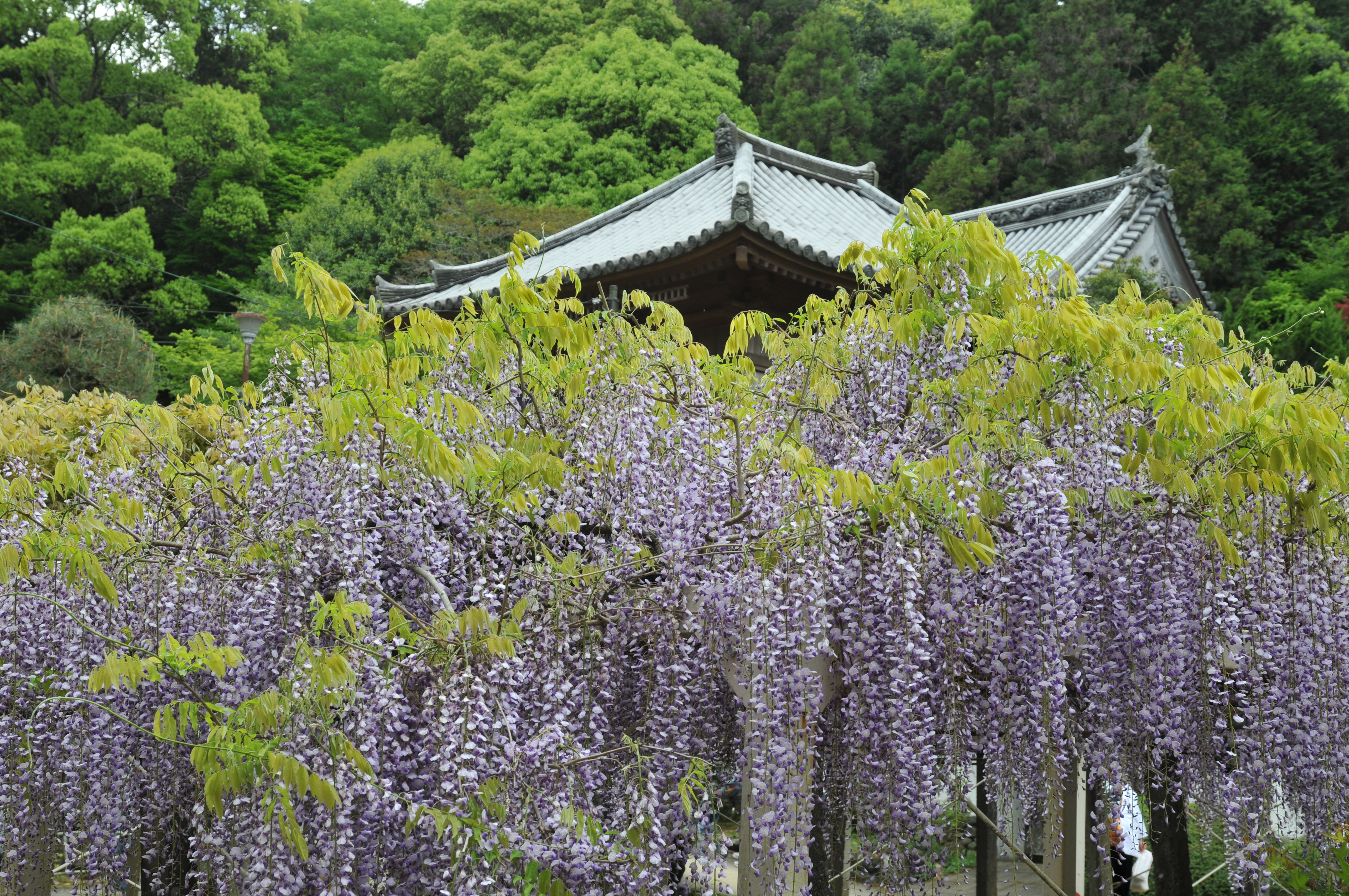 Wisteria terrace, Fujii-dera